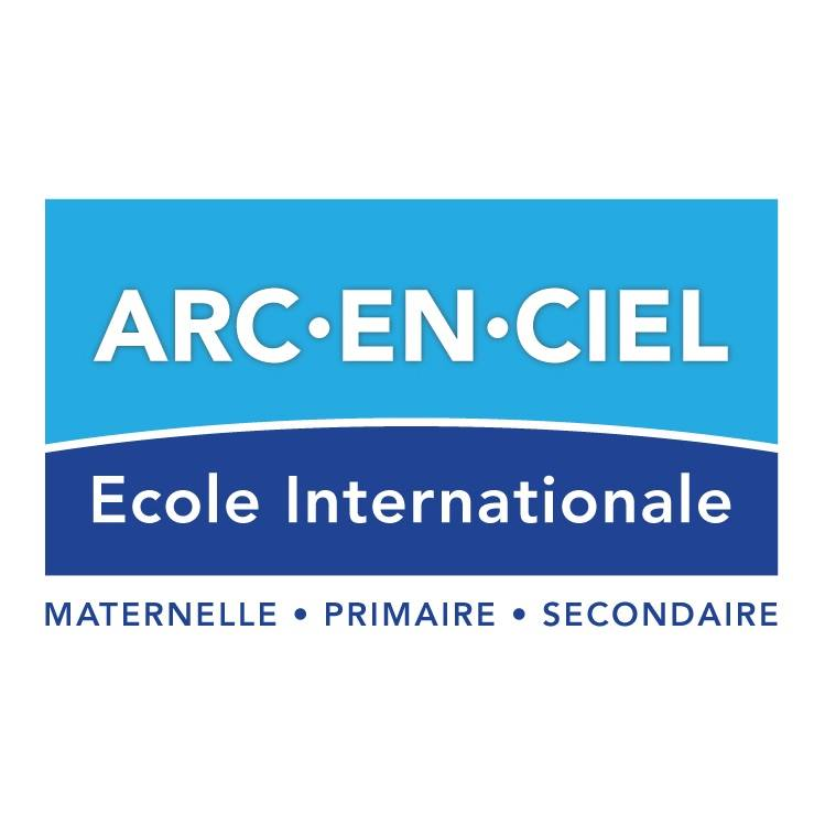 Logo of Arc-en-Ciel International School